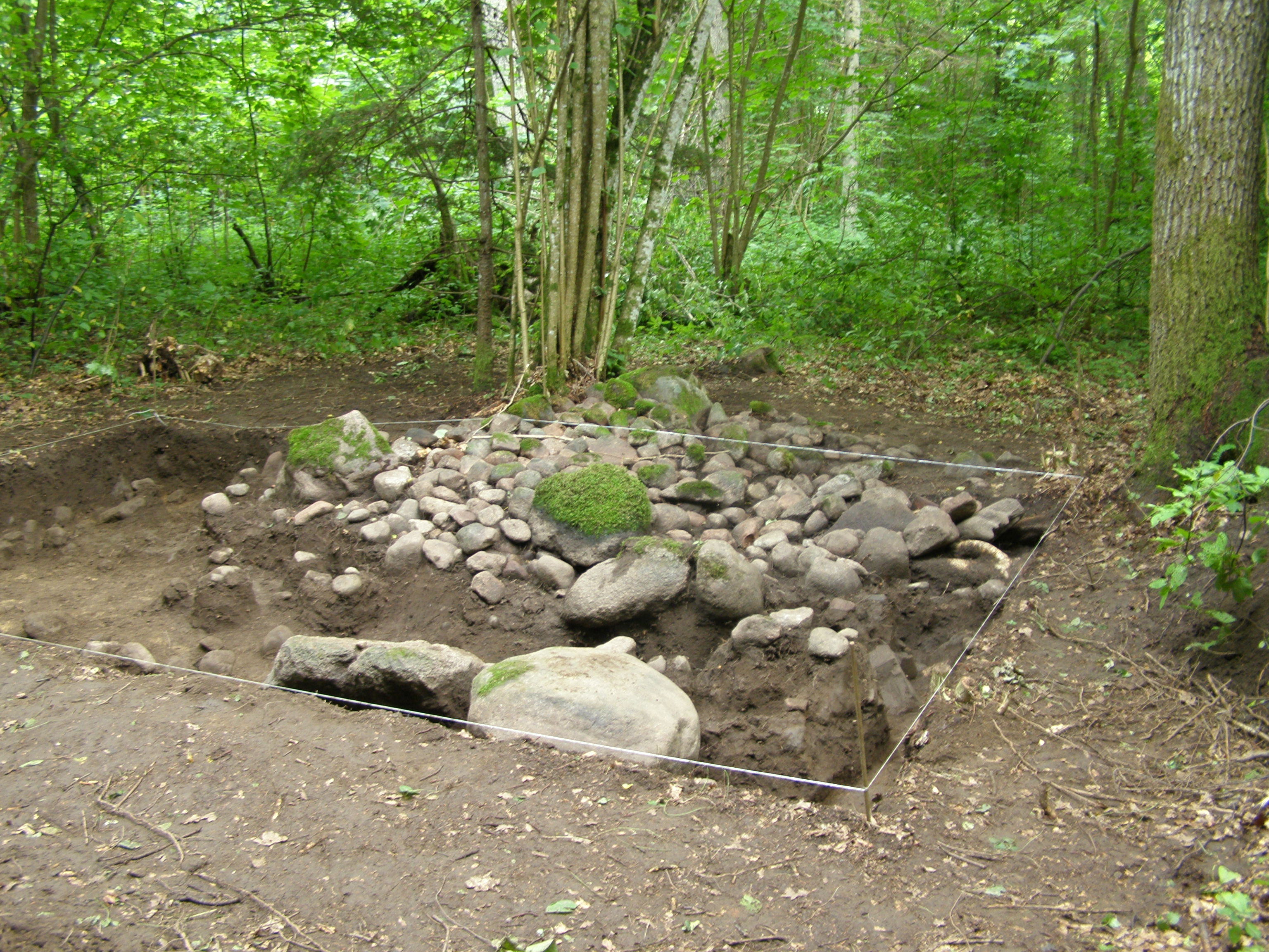 Kašučiai Fossil Fields, Kretinga district, Lithuania